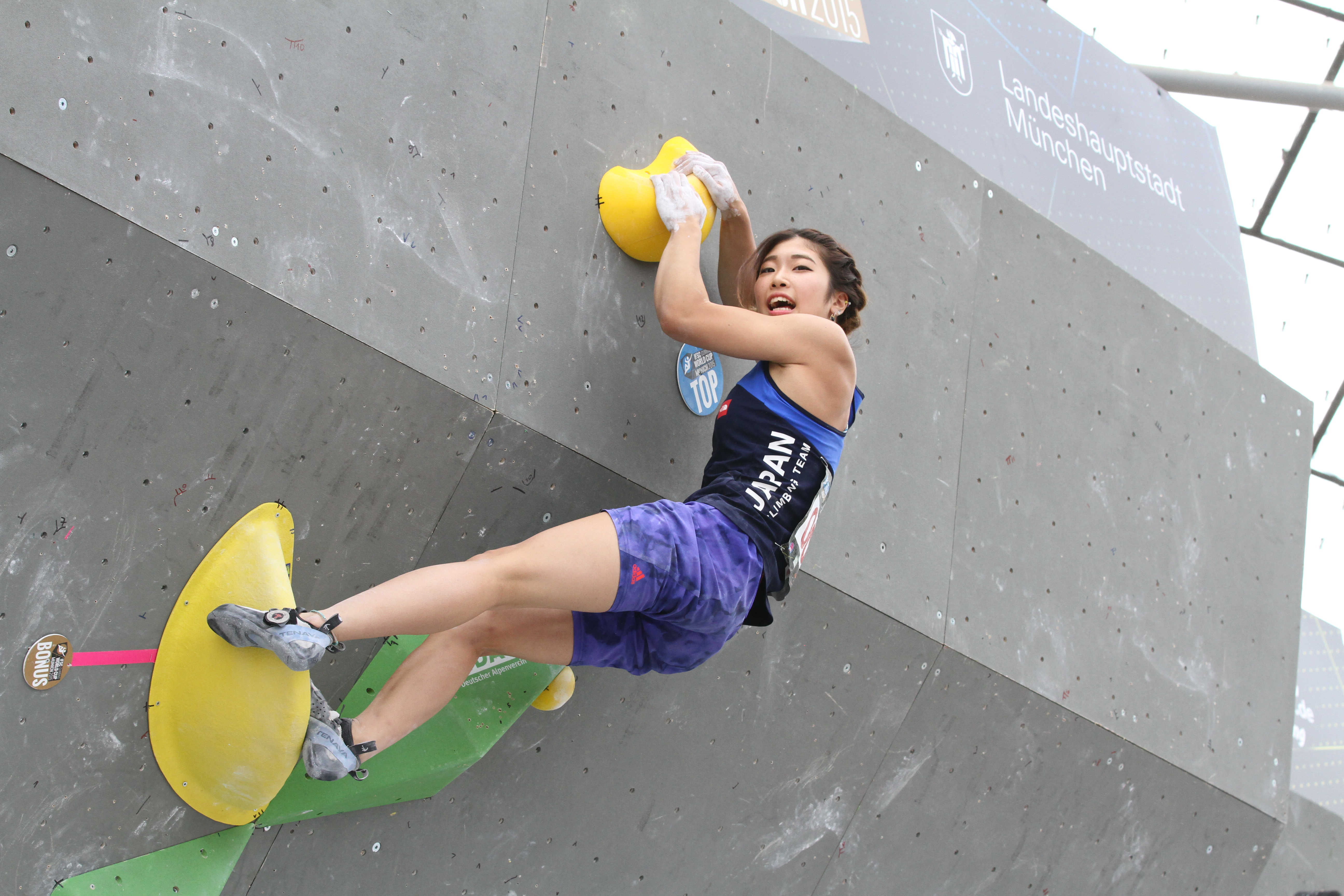 IFSC Boulder Worldcup, Munich 2015. Miho Nonaka (JAP)